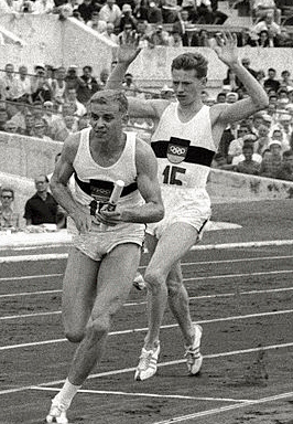 Armin Hary and Bernd Cullmann at the 1960 Olympics